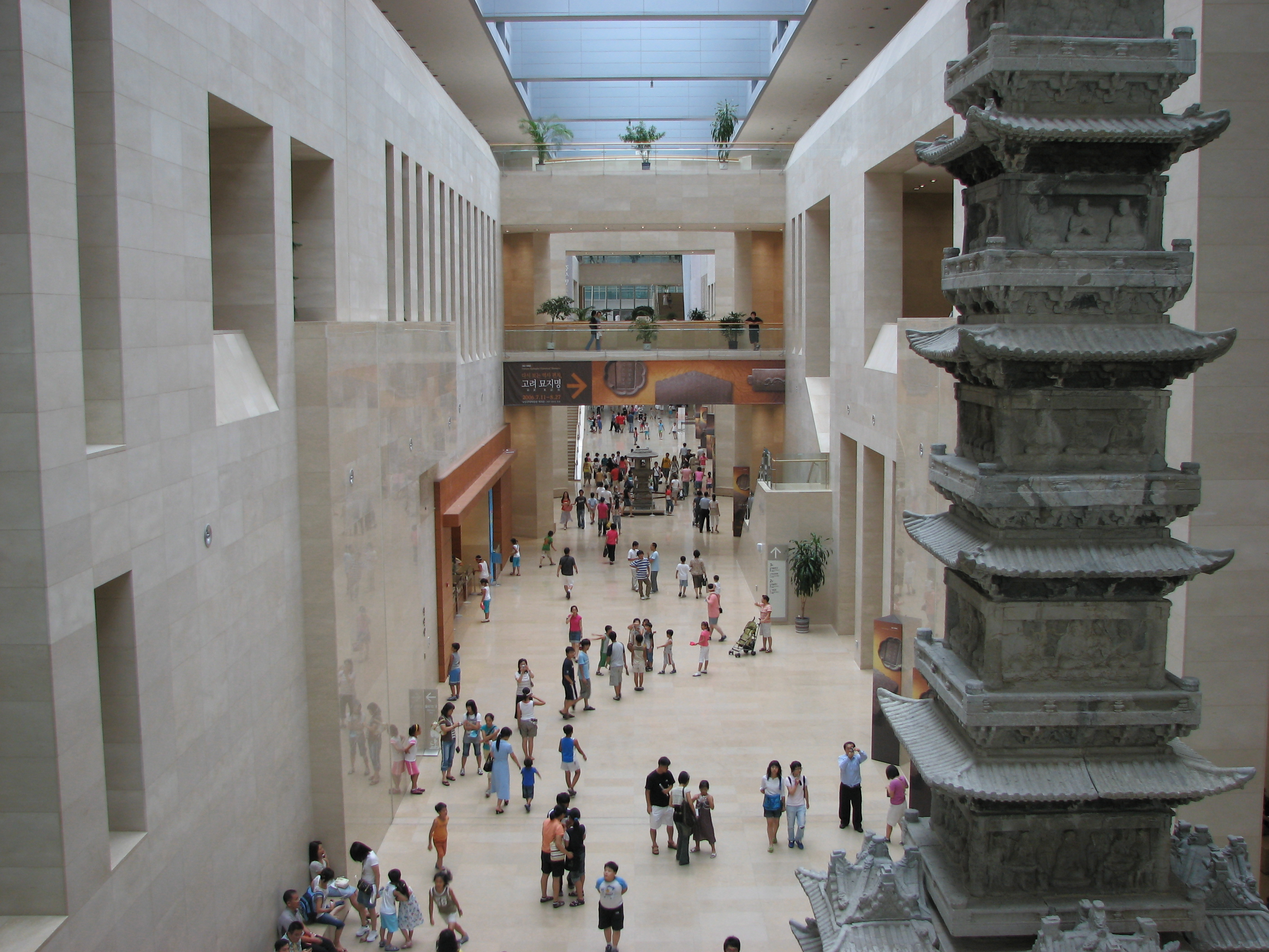 National Museum of Korea, in Seoul.